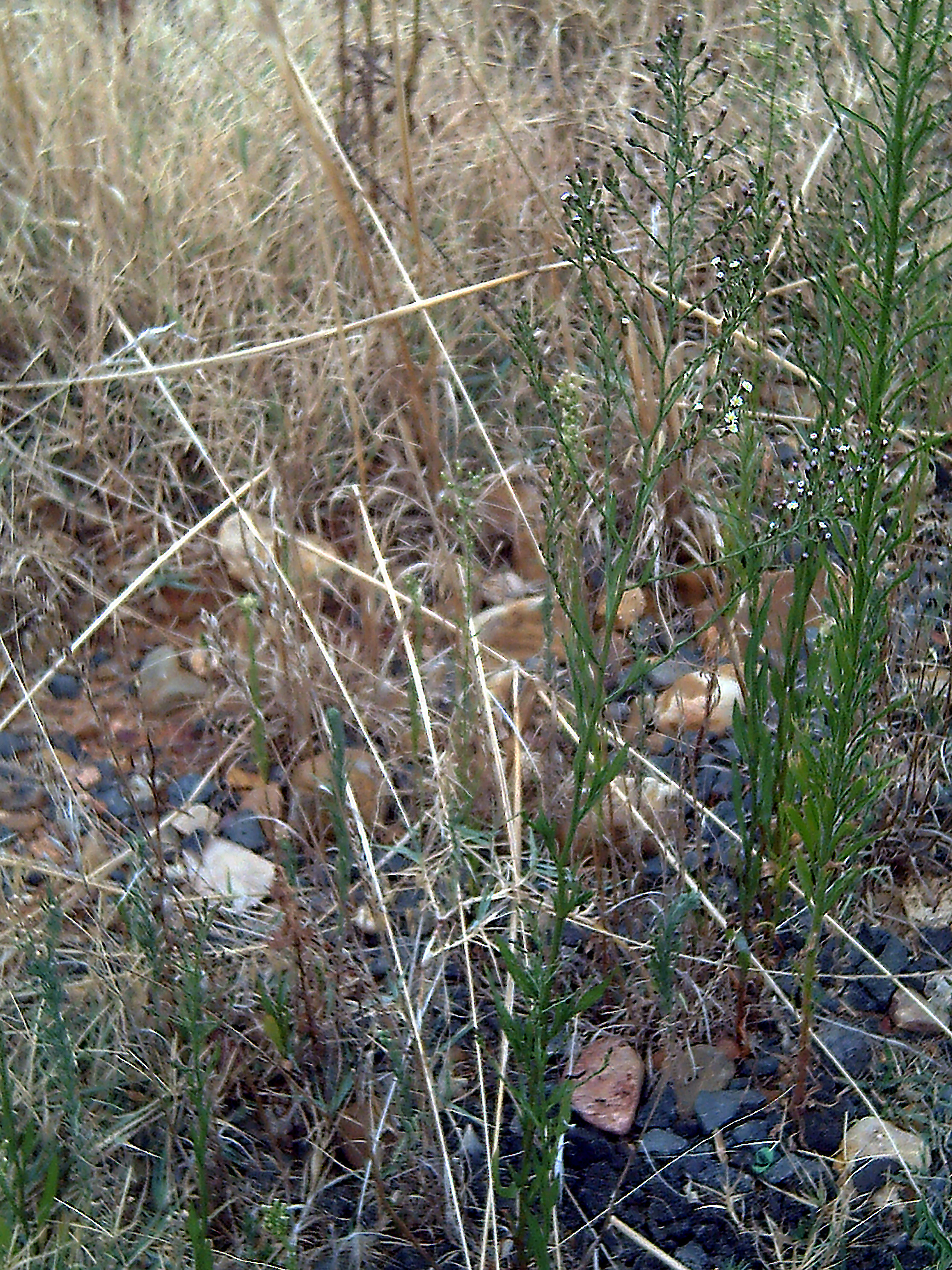 Aster squamatus habit, Campo de Calatrava, Spain